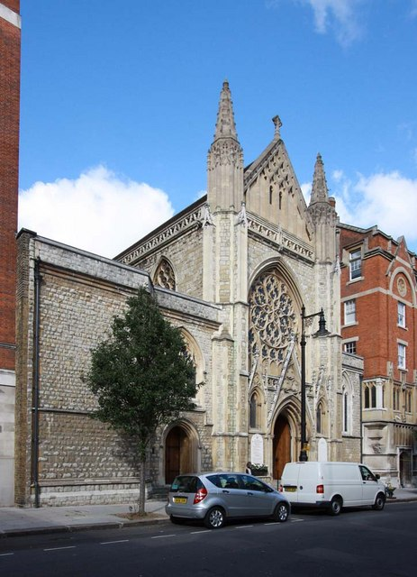 The Immaculate Conception, Farm Street, London W1